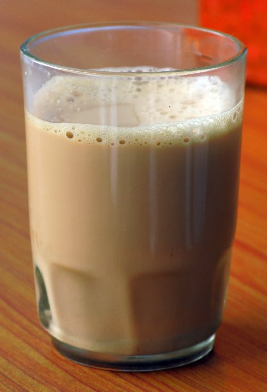 Dust #1 is the cheapest but in my opinion the most aromatic part of tea production with full, dense aroma and colour. The real thing for everyday's enjoyment. Milk and sugar are essential. If you need some kind of *artistic* feel and stimulus then you should take something in between Green Tea and Broken Orange Pekoe. No milk ! No sugar, if possible! Variations with Dust #1 are many, like adding a pinch of freshly chopped ginger, few seeds of cardamom; cinnamon, cloves ... or even some ganja.